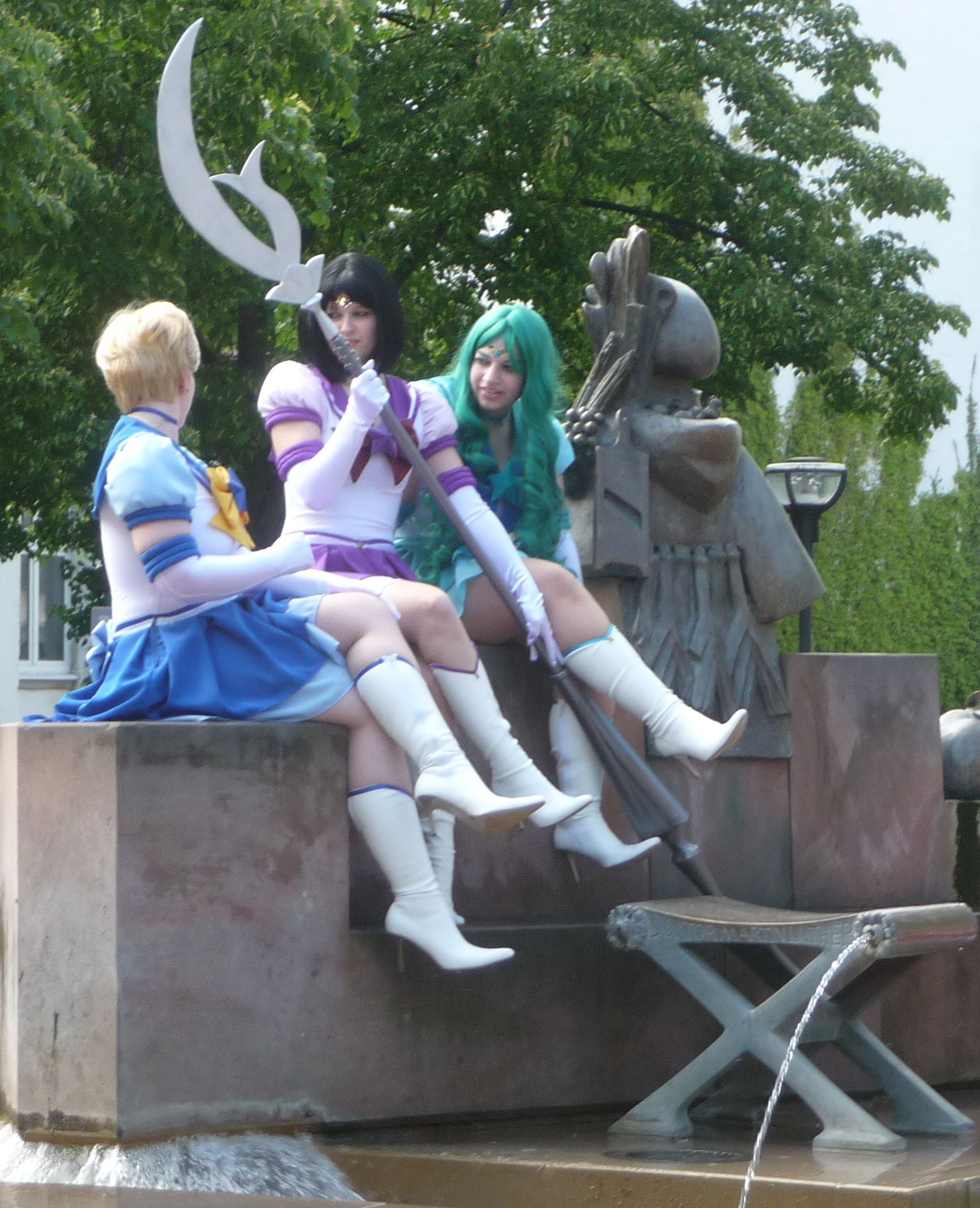 Cosplay